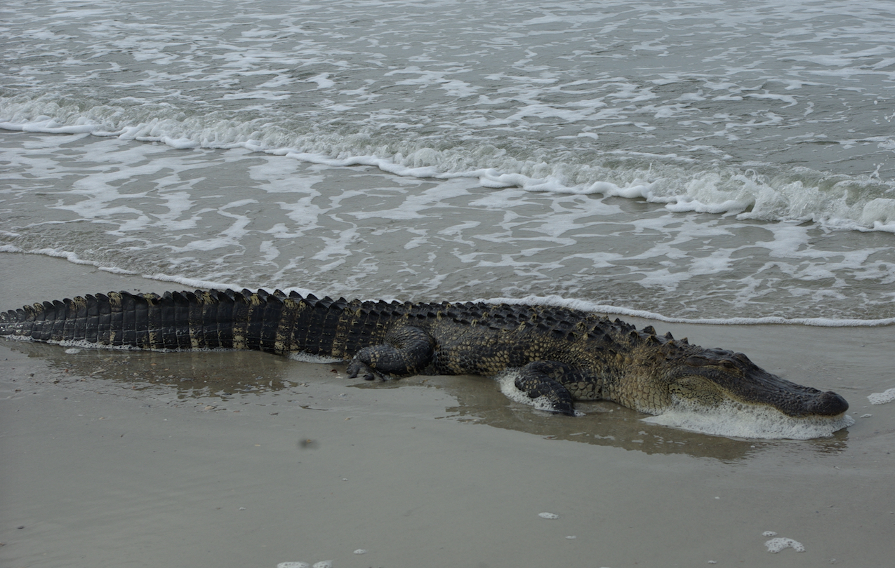 Alligator enjoying the surf at Caswell Beach